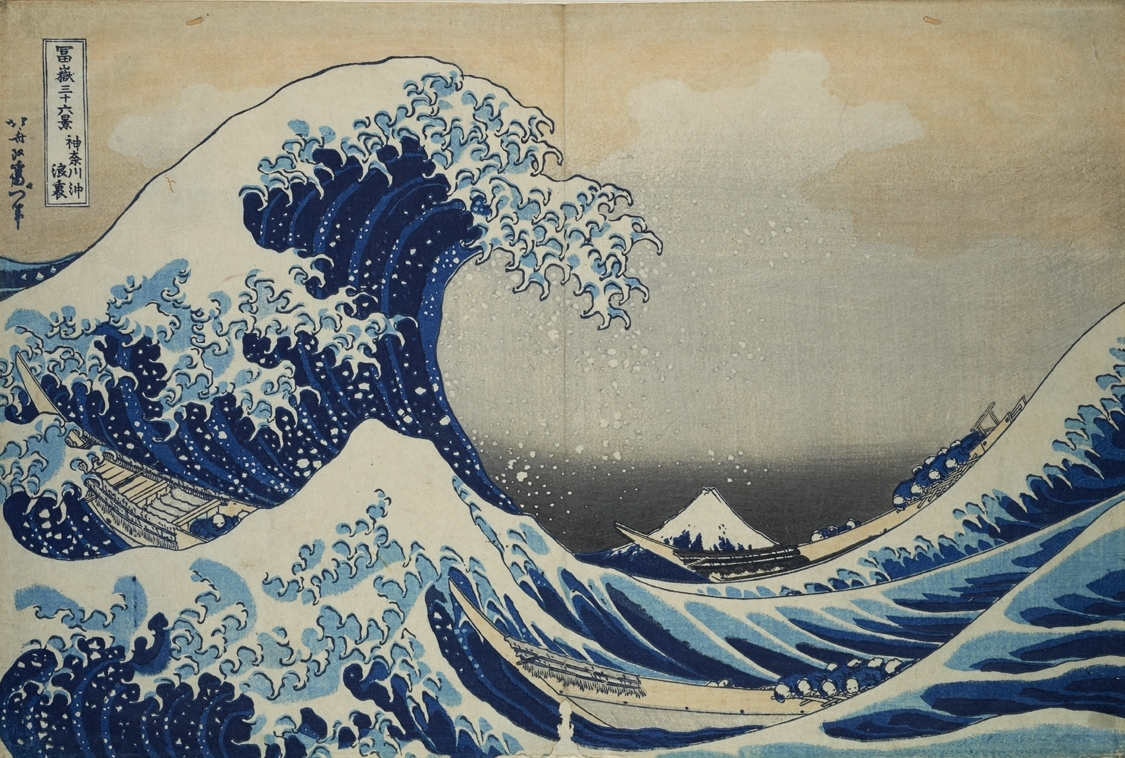 Fishermen in their skiffs with a wave about to crash down on them, Mt Fuji in the background.